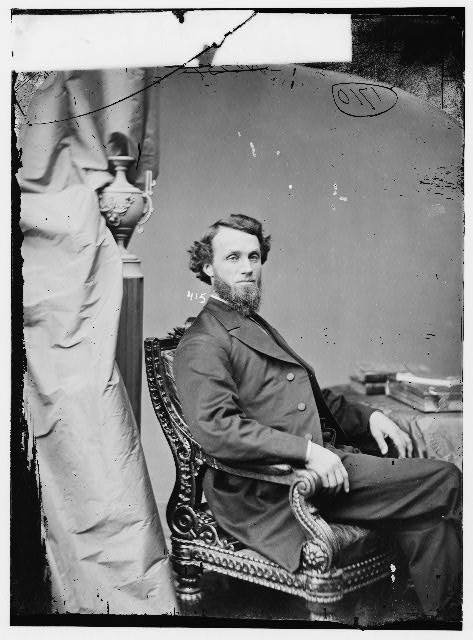 Charles Pomeroy (September 3, 1825 - February 11, 1891) was a one-term Republican U.S. Representative from Iowa's 6th congressional district.